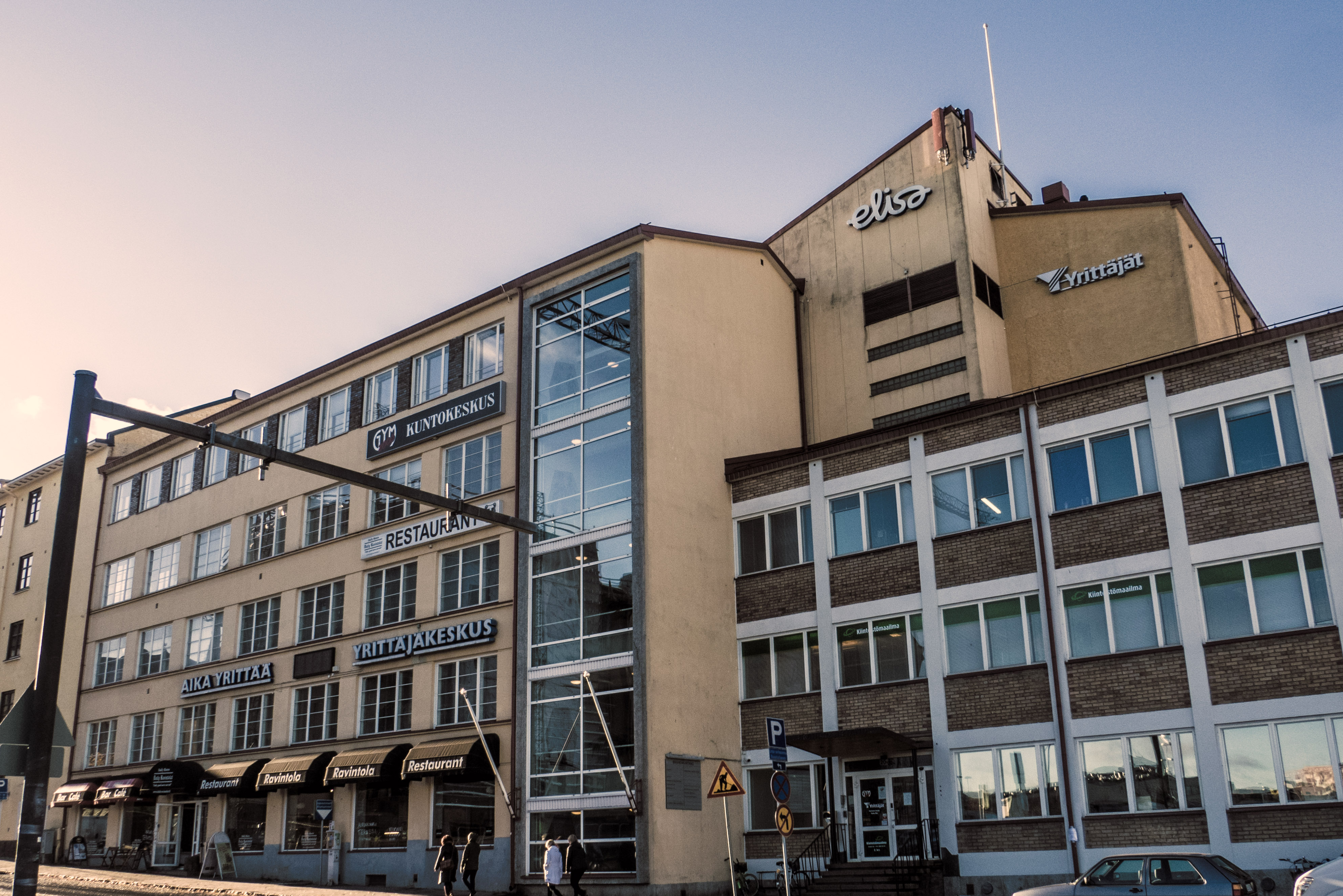 Former Kestilä clothing factory on Brahenkatu near the bus station in Turku, Finland. Architect Olli Kestilä, member of the owner family. Completed 1956. The company went bankrupt in 1989.